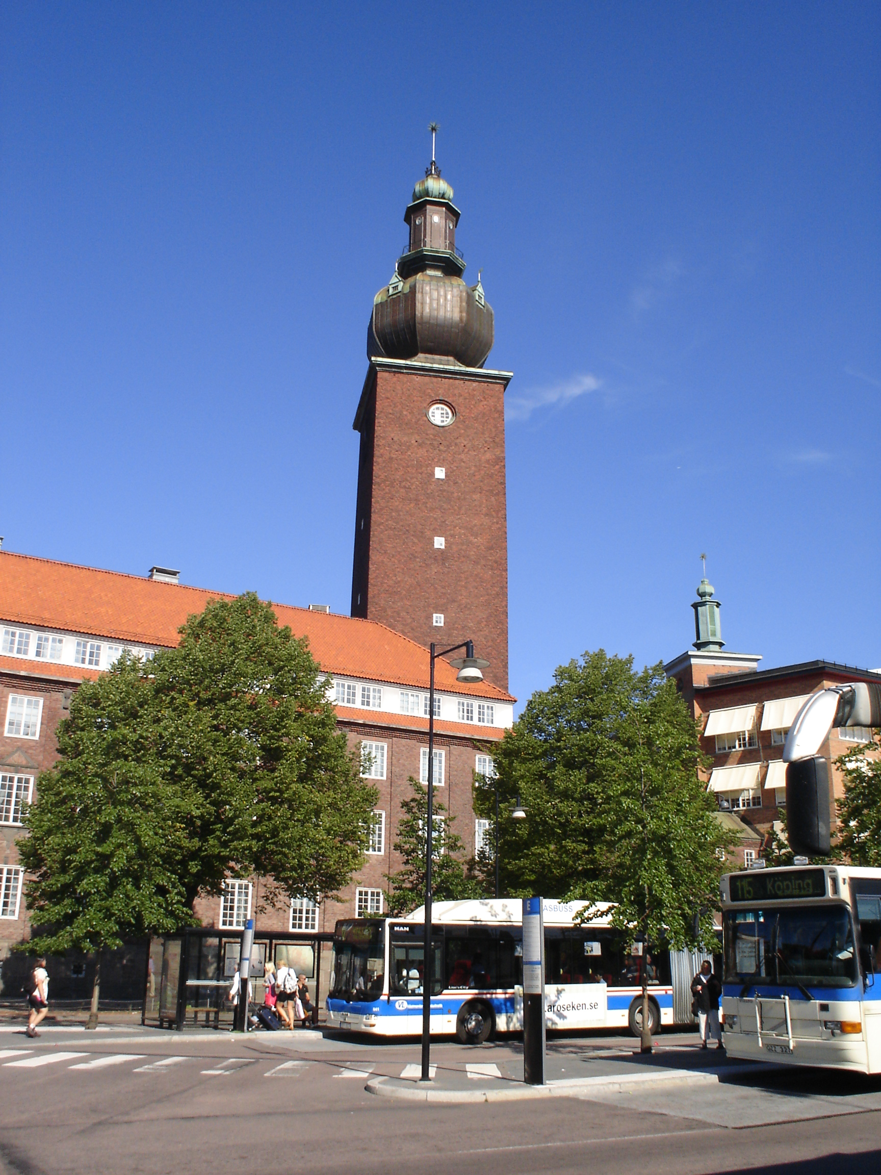 A picture of the old ASEA H.Q. in Västerås.